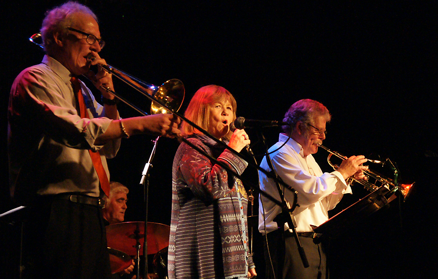 Lousiana Jazzband with Daimi in Gimle, Roskilde - (oct. 2010)